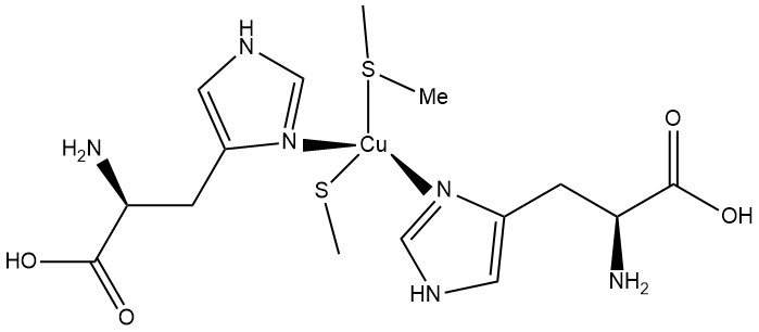 The structure of Blue Copper Protein